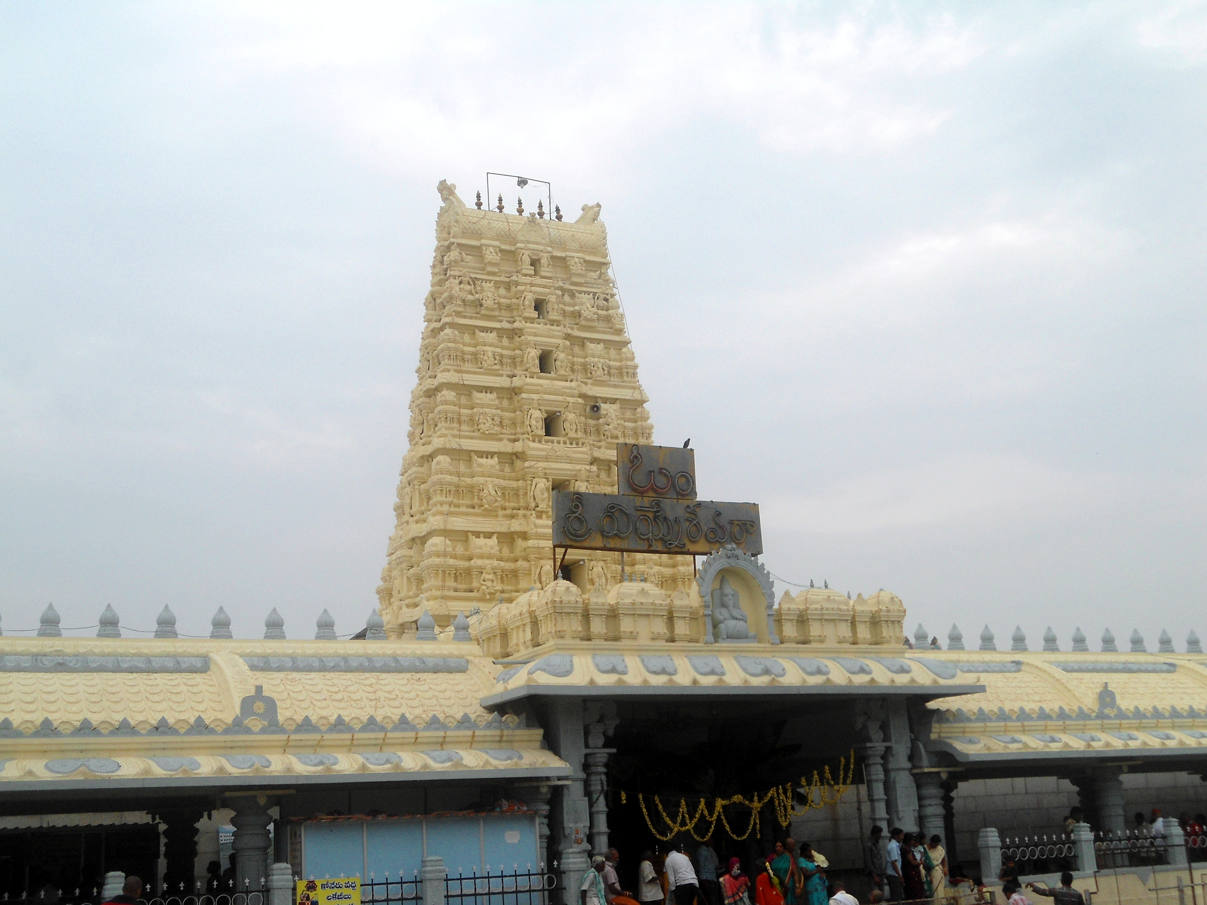 A view of Kanipakam Temple Gopuram in chittor district of Andhra Pradesh on a cloudy day